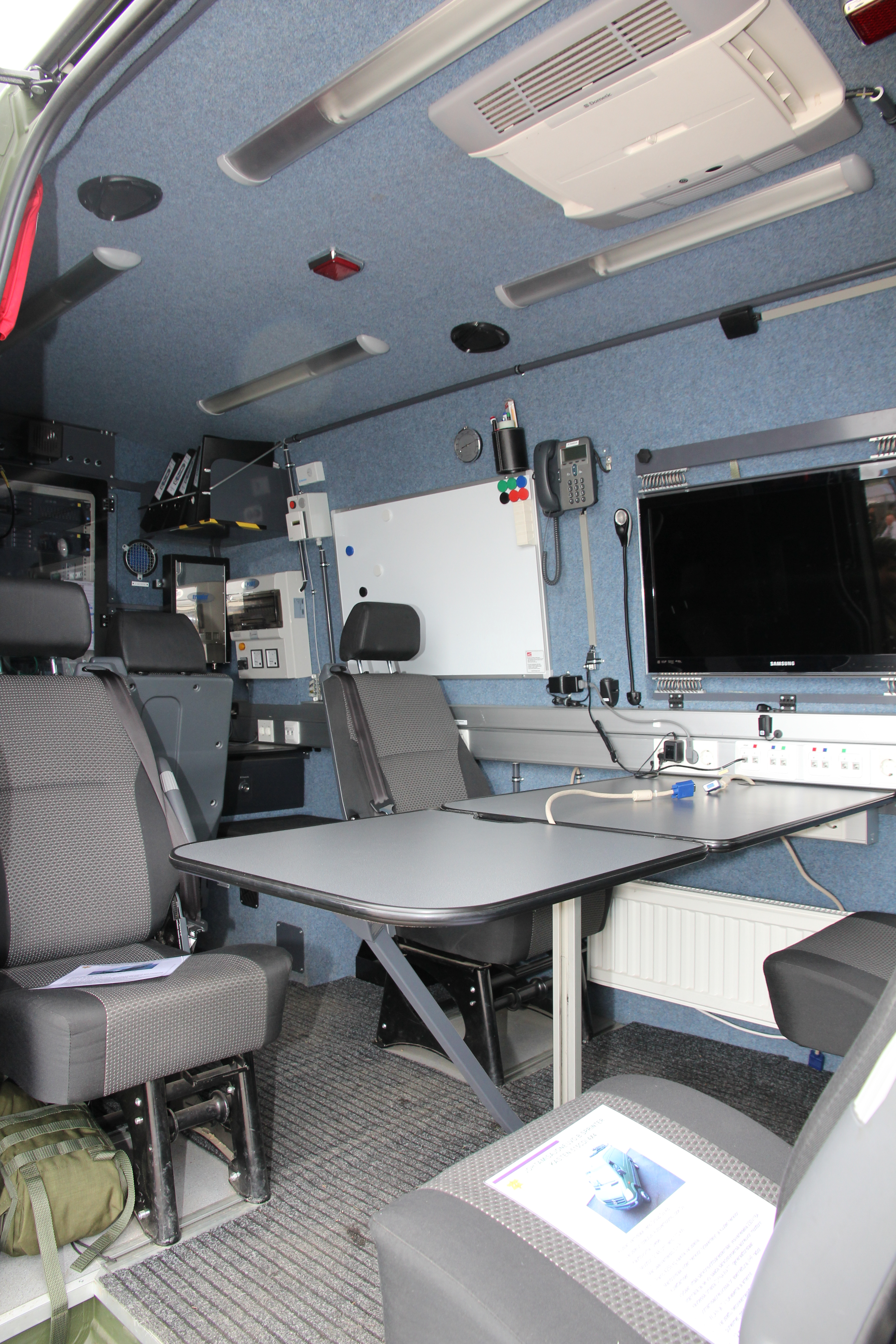 Command vehicle B based on Mercedes-Benz Sprinter 515CDI 4x4 van on display during Finnish Defence Forces 2013 Flag day in Ekenäs harbour.